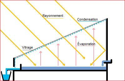 Solar distillation box, operation scheme